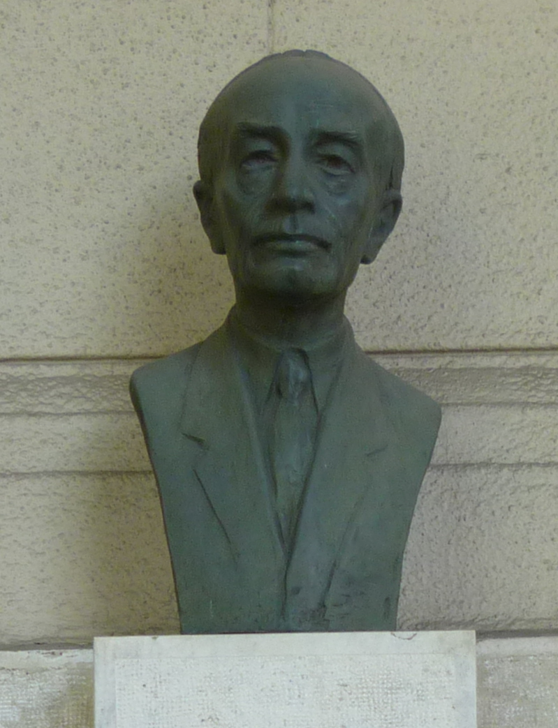 Photograph taken on May 19, 2012 at Kossuth Square in Budapest. Bust of József Marek at the wall of the Ministry of Agriculture and Rural Development.